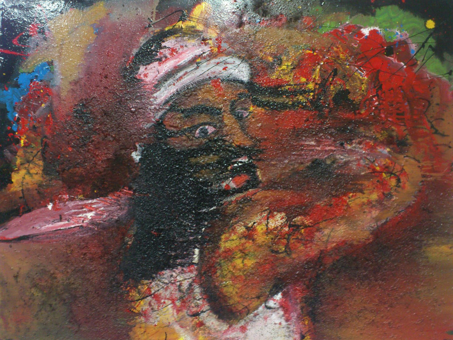 portrait of nepalese warrior Balbhadra Kunwar painted on canvas painted by Rupesh dangol